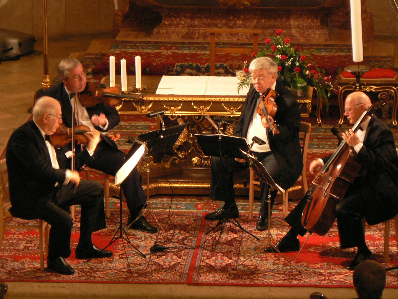 A Bartók vonósnégyes Solymáron 2009-ben